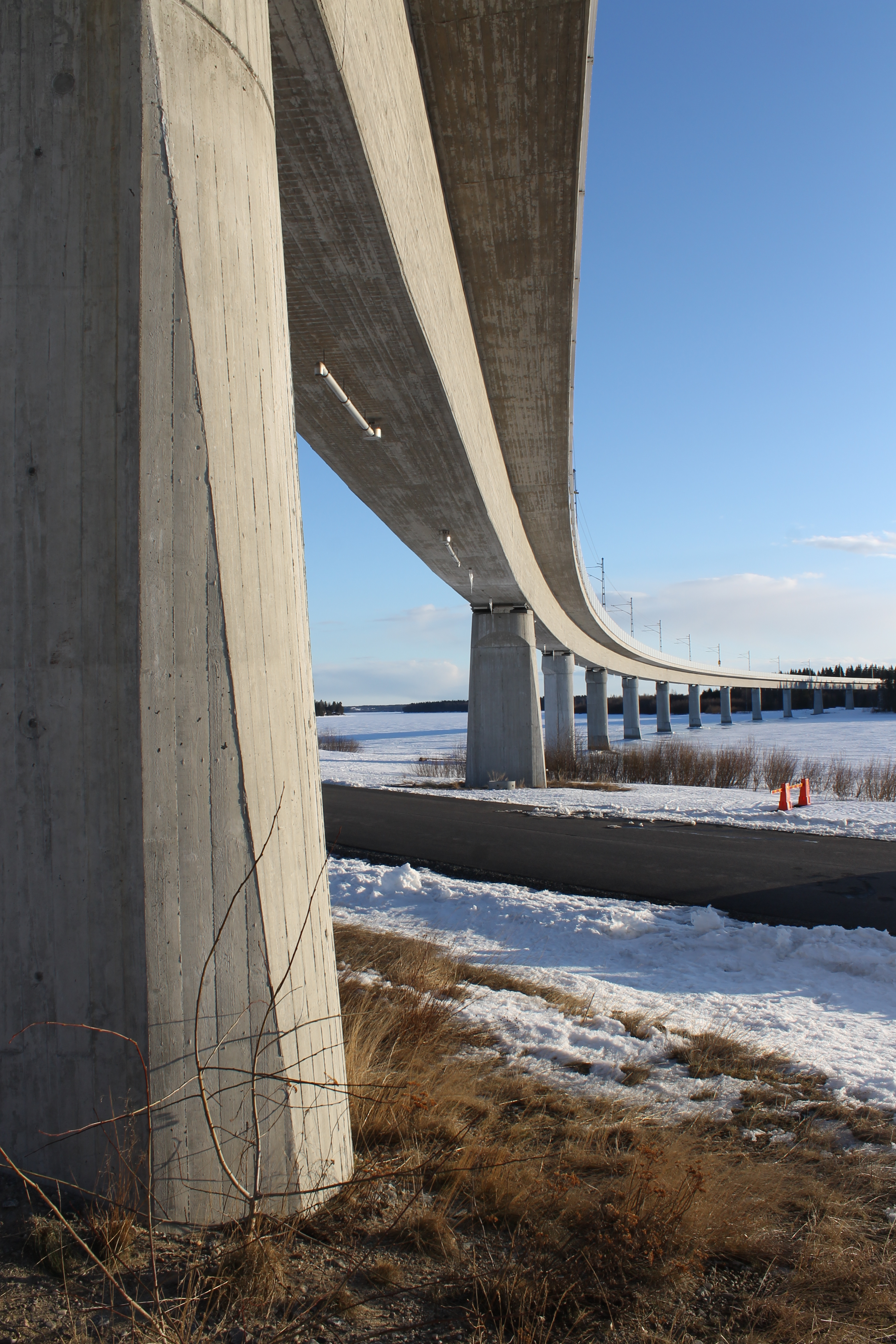 Umeälvsbron (Ume River Bridge) in Umeå, Sweden.